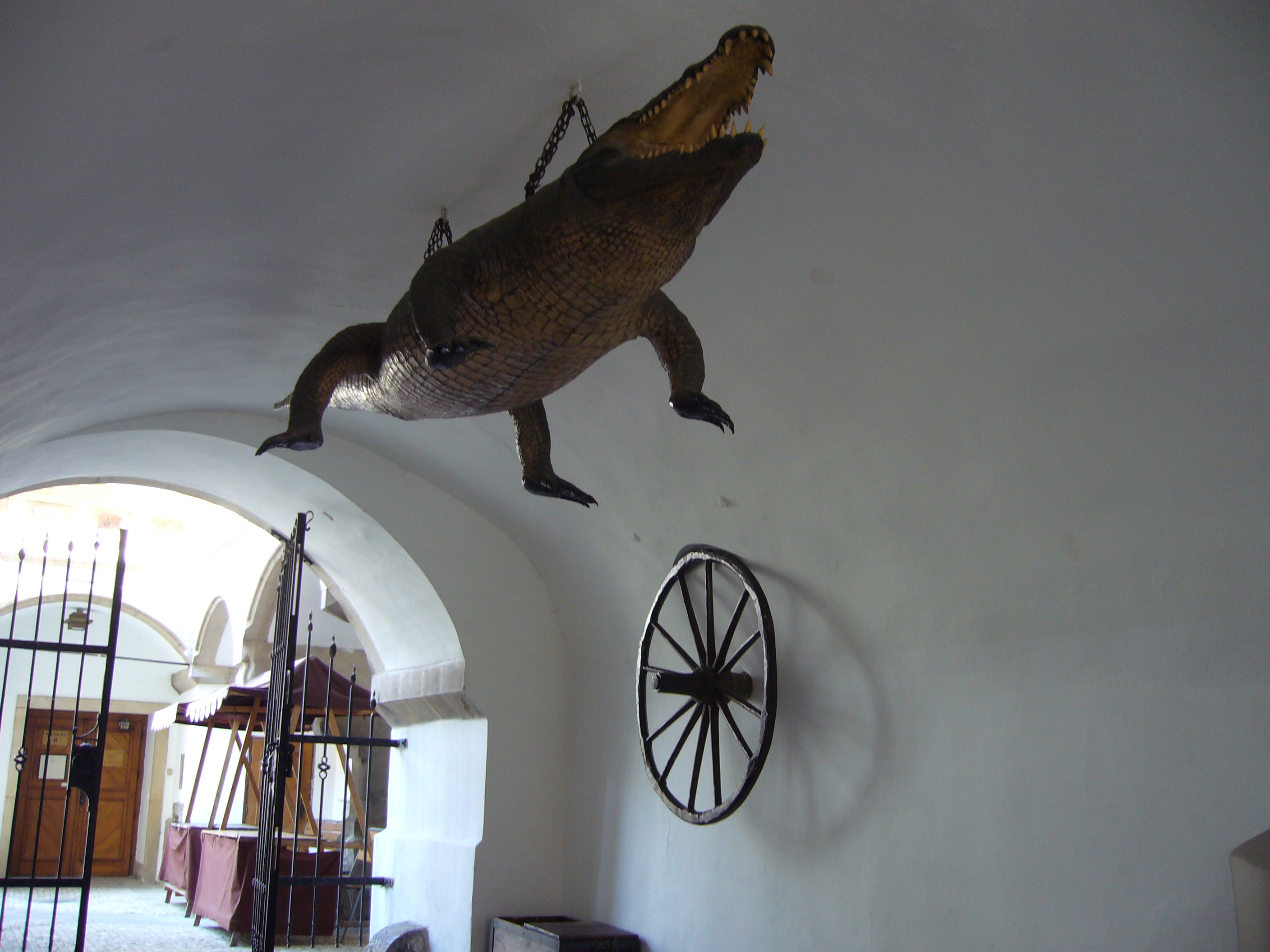 Brno "dragon" and wheel at the passage of the Old town hall in Brno